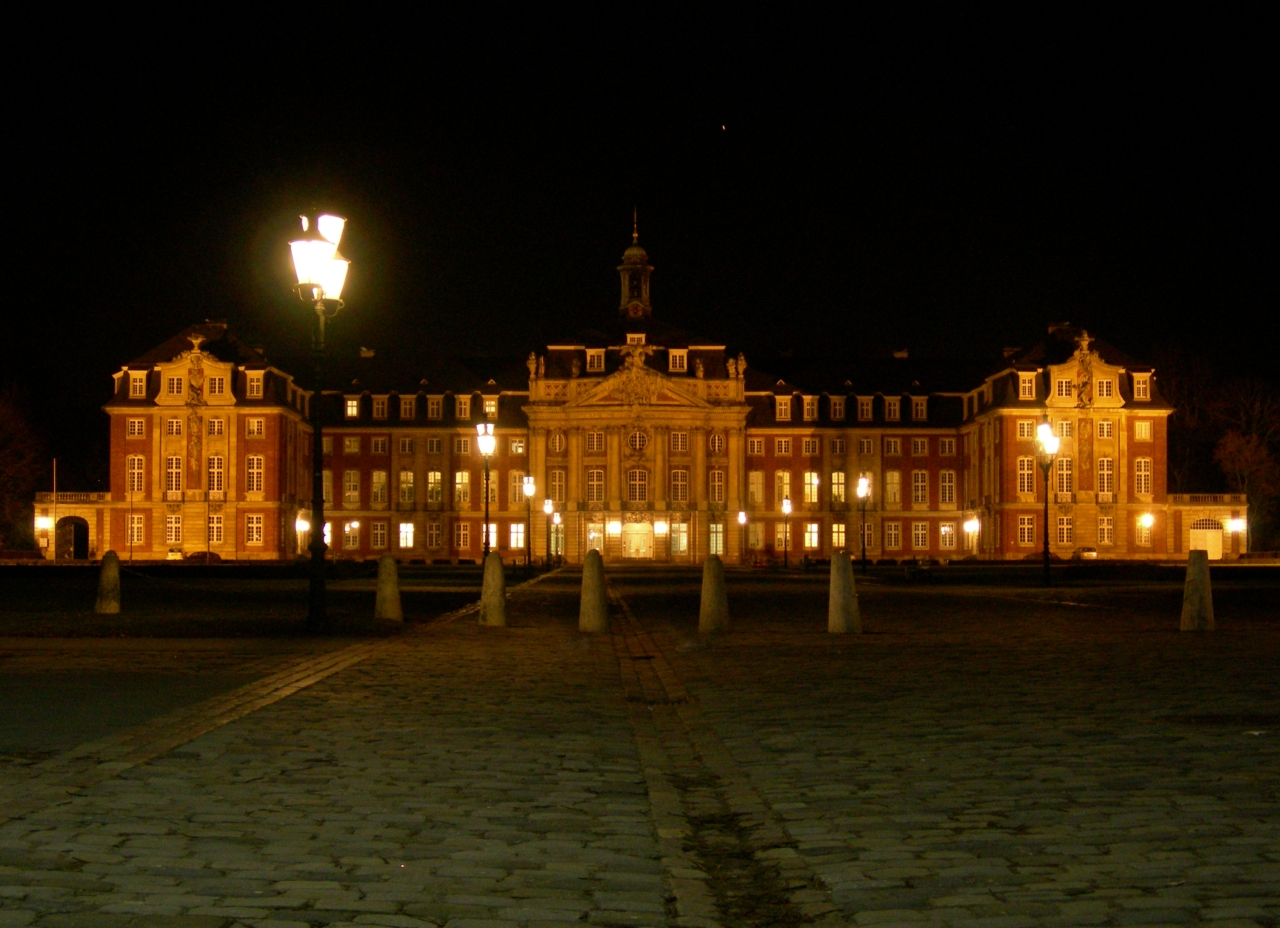 The castle of the Wilhelms-Universität in Münster (Westphalia) at Night, Germany.